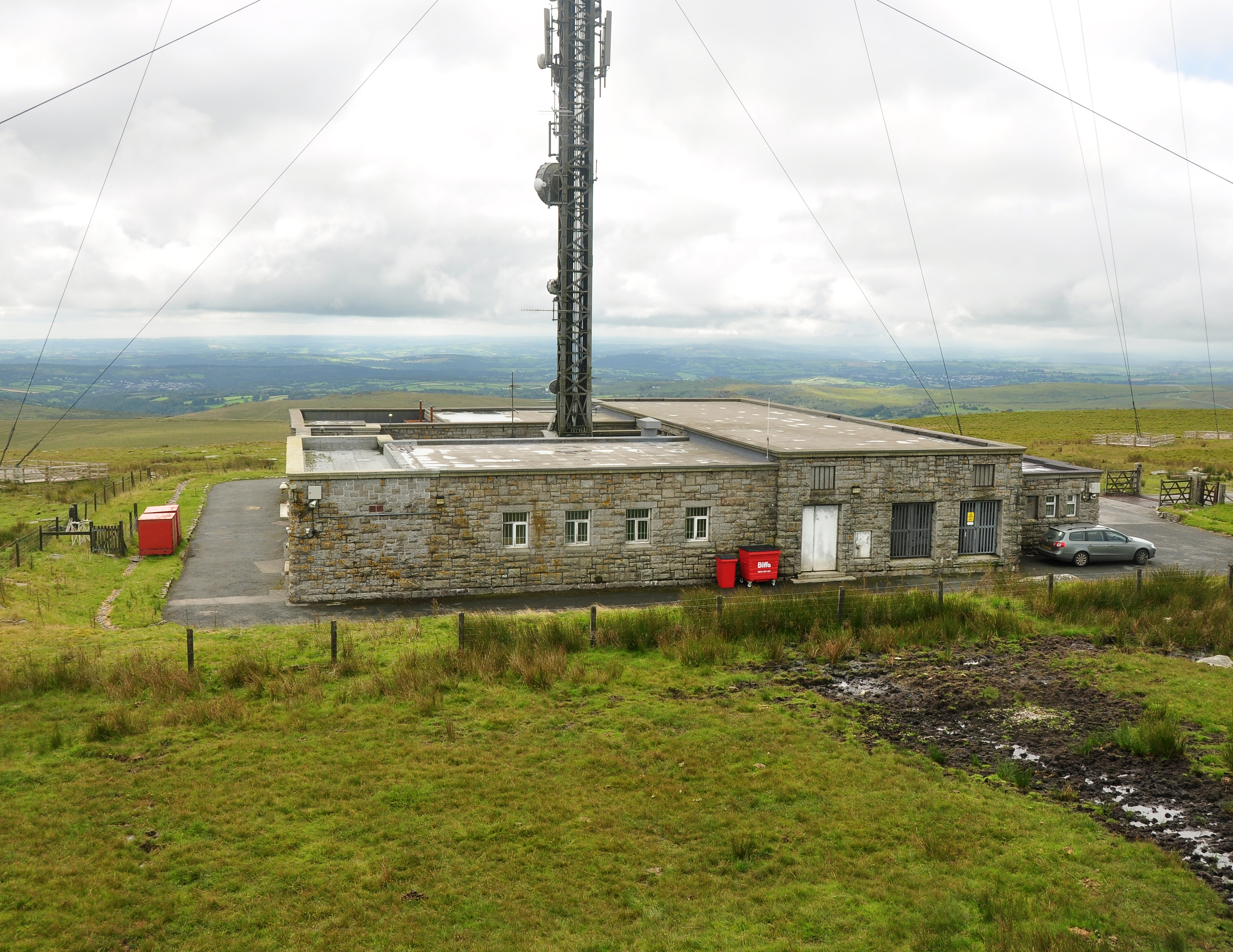 The base station at North Hessary Tor, near Princetown, on Dartmoor.